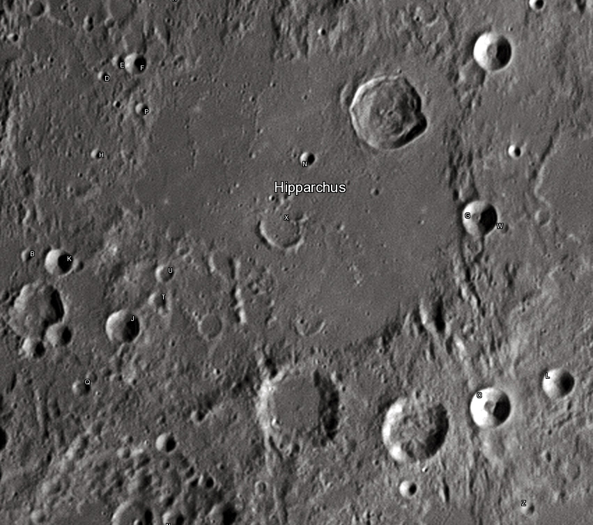 Hipparchus lunar crater as seen from Earth with satellite craters labeled